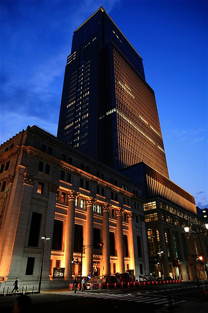 Nihonbashi Mitsui Tower Photographed by angaurits in March 2007